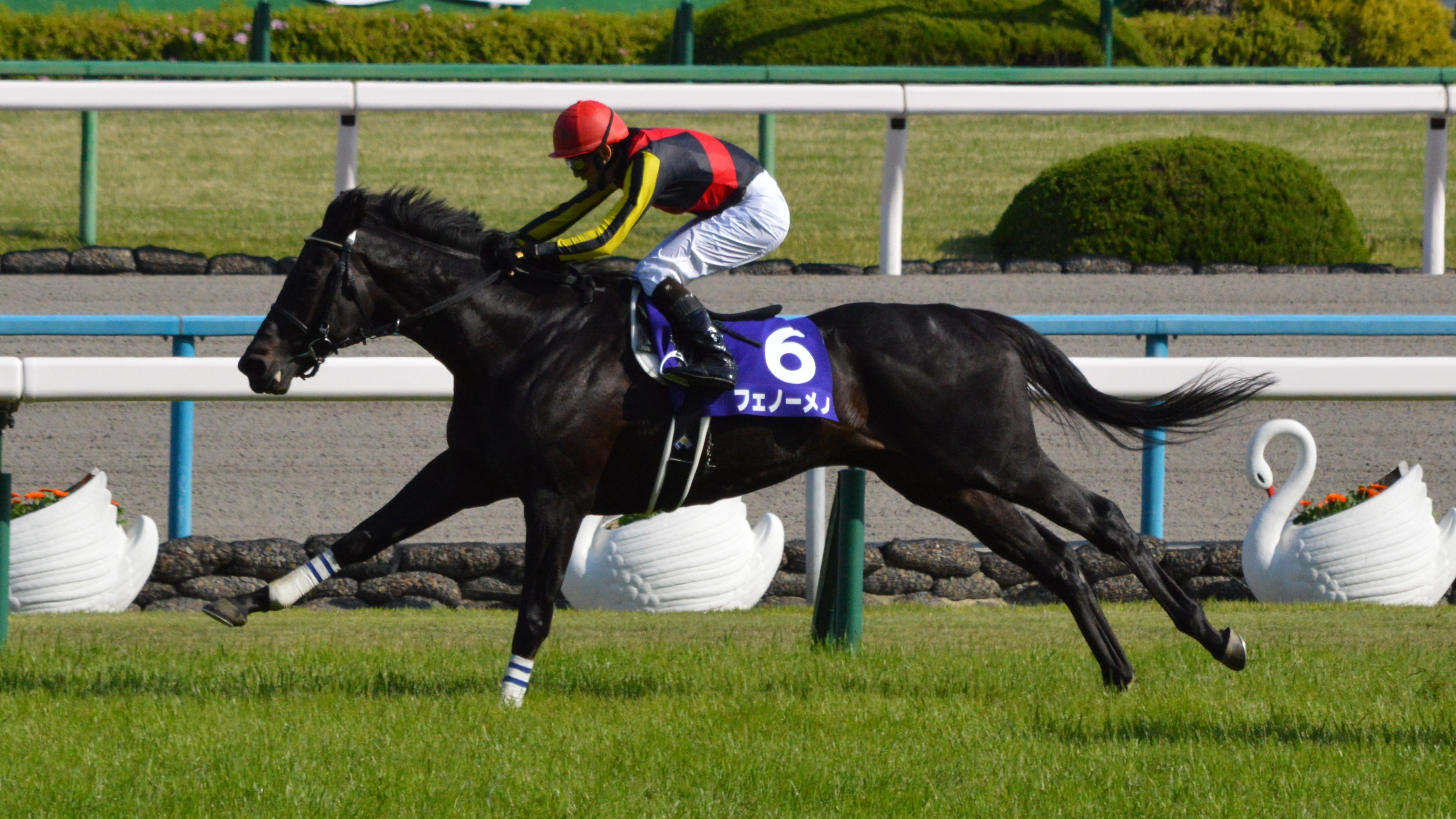 Japanese race horse Fenomeno at Kyoto racecourse. Kyoto (JPN) 28 Apr 2013Tenno Sho (Spring) (Grade 1) (4yo+) (Turf) 2m Firm RankHorse NameOddsAgeWgtTrainerJockey1stFenomeno (JPN)26/5C49-2Hirofumi TodaMasayoshi Ebina2ndTosen Ra (JPN)126/10H59-2Hideaki FujiwaraYutaka Take3rdRed Cadeaux (GB)28/1G79-2Ed DunlopGerald MosseOthers are omitted. (18 horses entered in a race.)